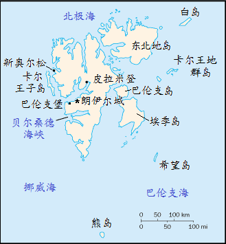 Spitsbergen_map_in_Simplified_Chinese